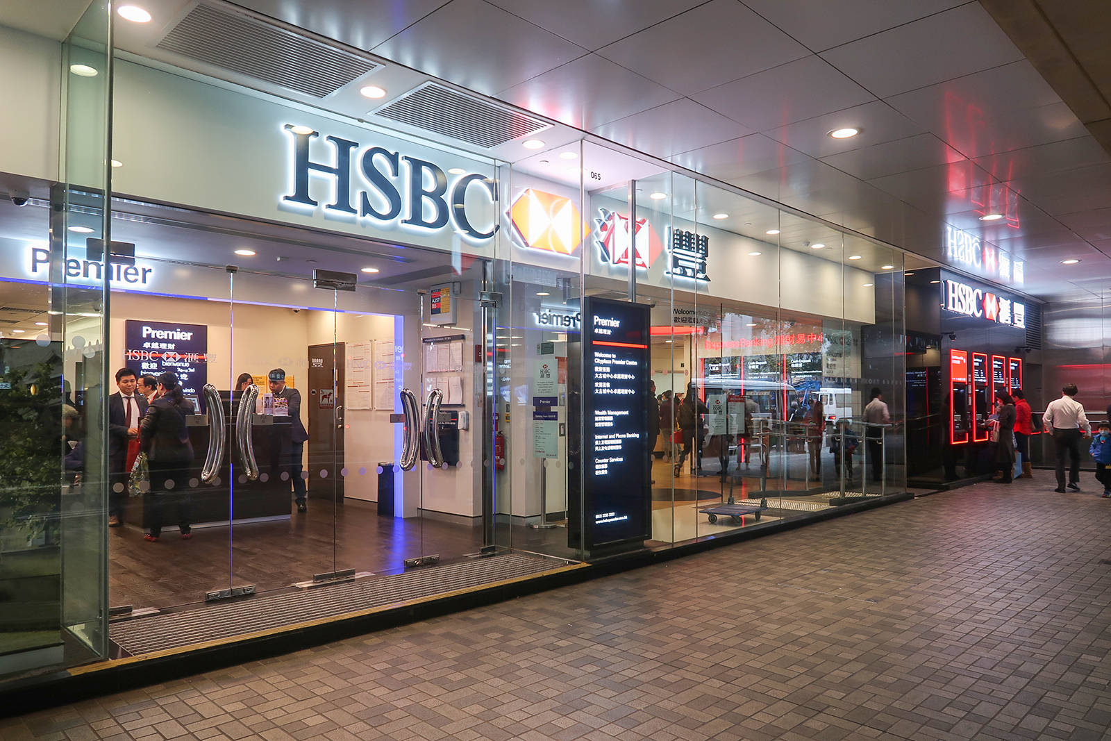 HSBC Premier Centre in cityplaza